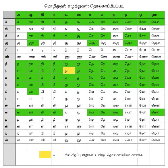 தொல்காப்பியத்தின்படி, தமிழில் மொழிமுதலில் அமையக்கூடிய எழுத்துகள் இவை.